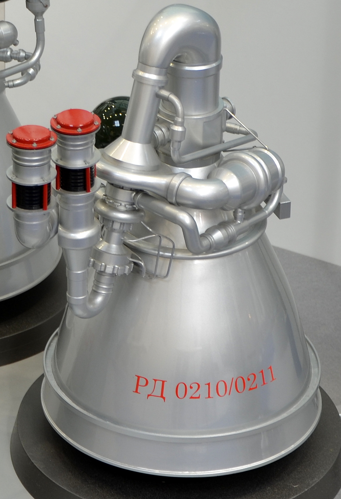 Mockup rocket motor RD-0210/RD-465 Salon du Bourget 2013